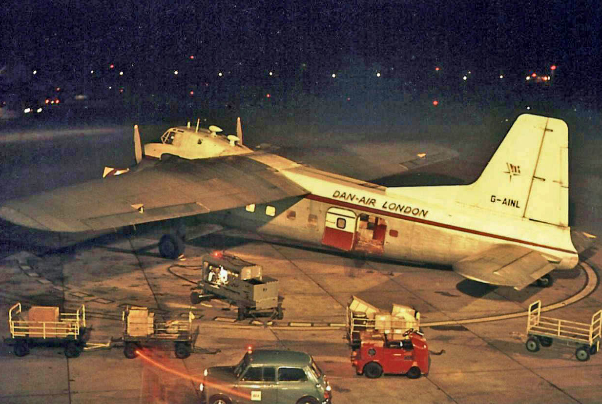 Bristol 170 Freighter 31 G-AINL of Dan-Air at Manchester Airport in 1964